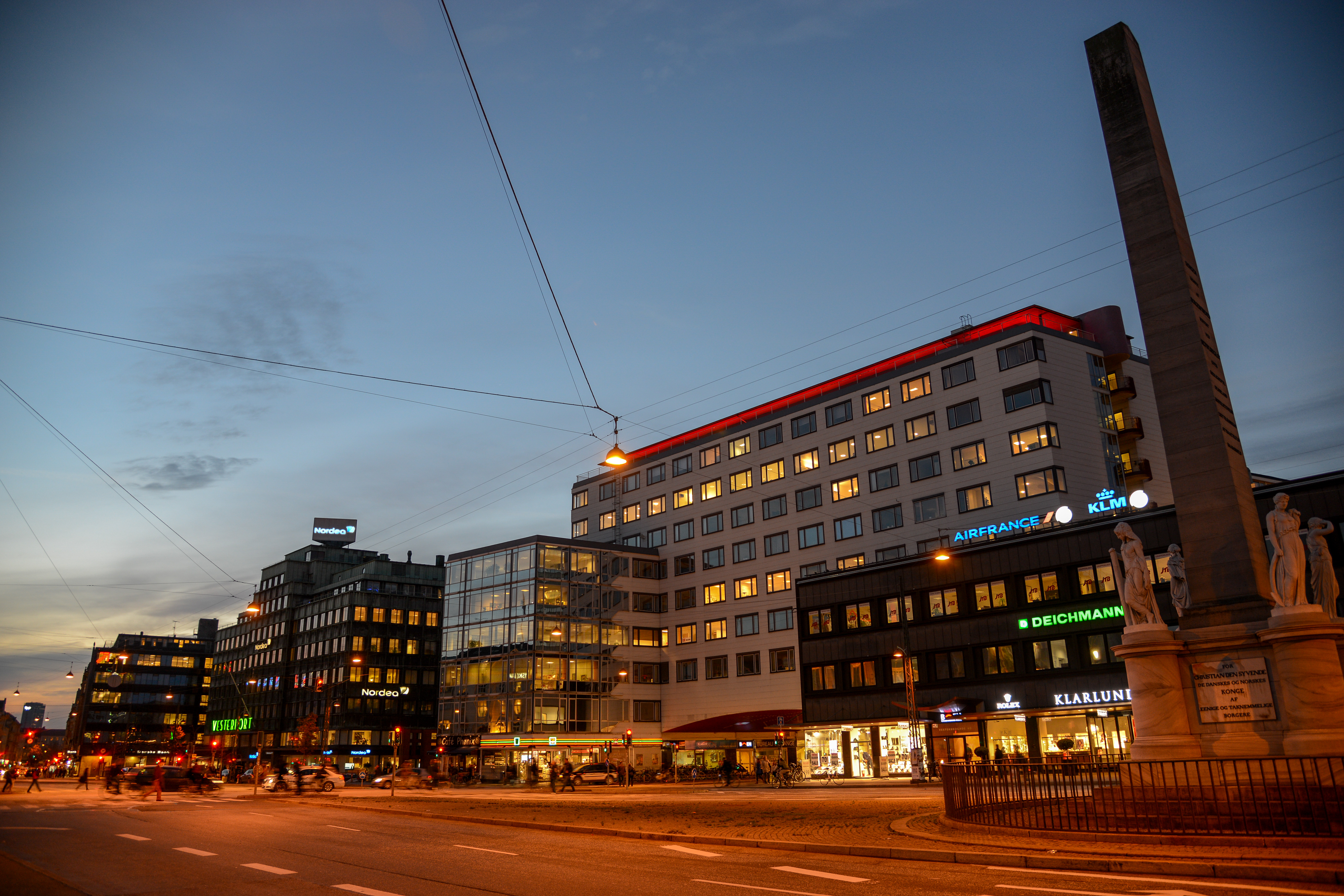 The Liberty Column (Danish: Frihedsstøtten), located in front of Central Station in Copenhagen, Denmark, is a 20 meter tall obelisque erected in memory of the peasant reforms in 1788 which led to the abolition of adscription (Danish: Stavnsbåndet). The 20 metre tall obelisque is made of sandstone from Nexø on Bornholm and its base is made of Norwegian marble. The four female figures at the base of the obelisque symbolise Bravery, Civic Virtue, Fidelity and the Industrious Cultivation of Land.